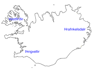 I just created this diagram and hereby release it under the terms of the GFDL as well as the CC licence.